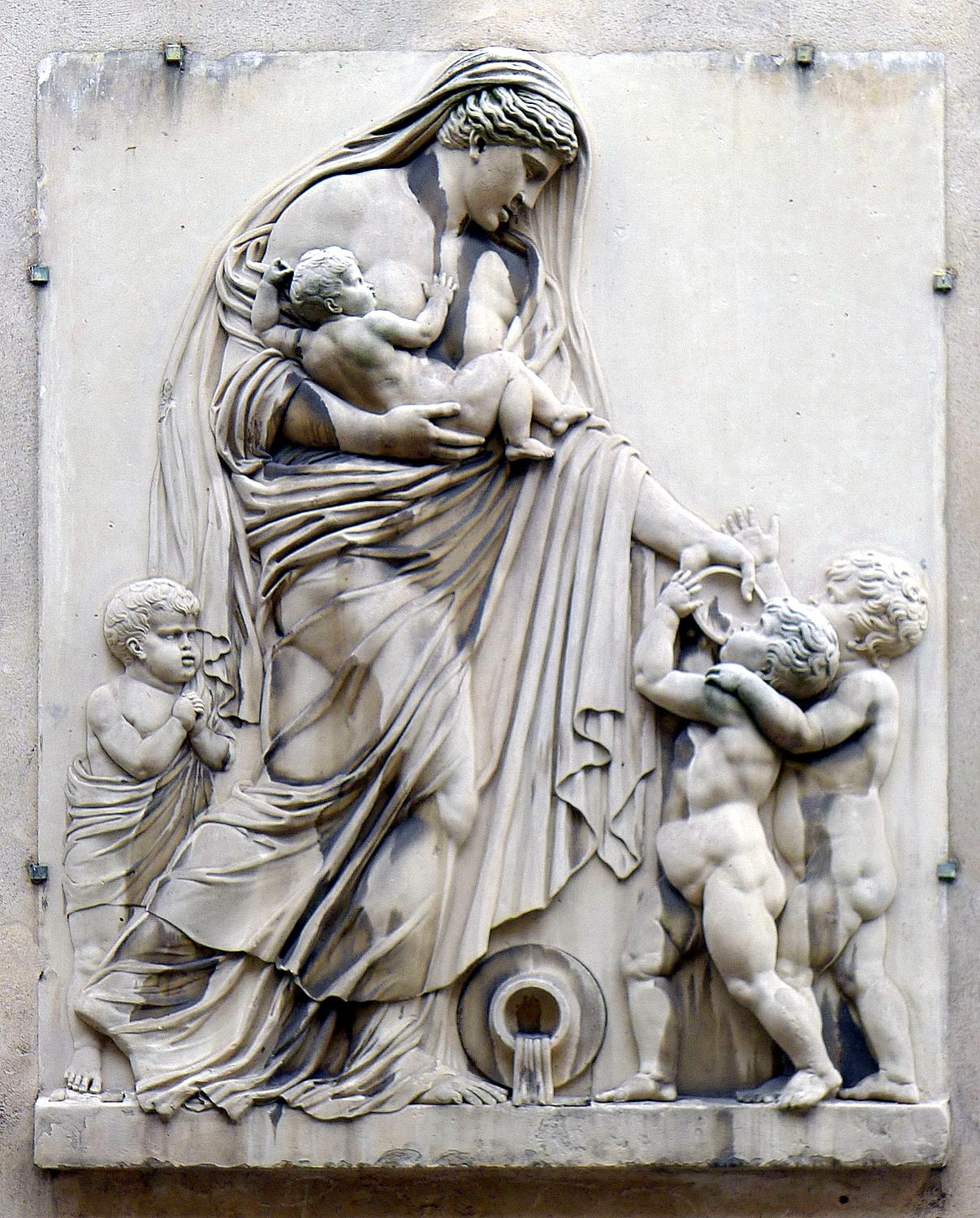 Sévigné street - Paris